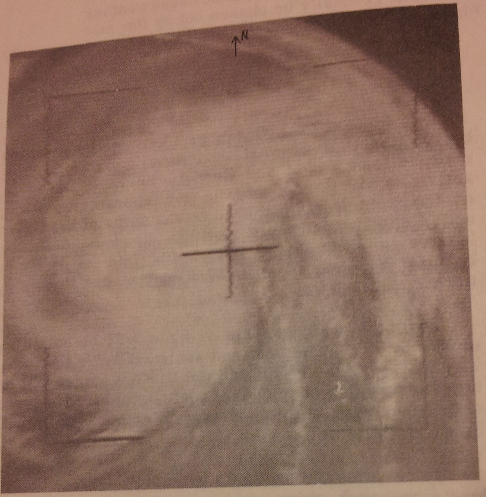 This deadly tropical cyclone's picture was taken by the TIROS X weather satellite over the Bay of Bengal on December 14, 1965